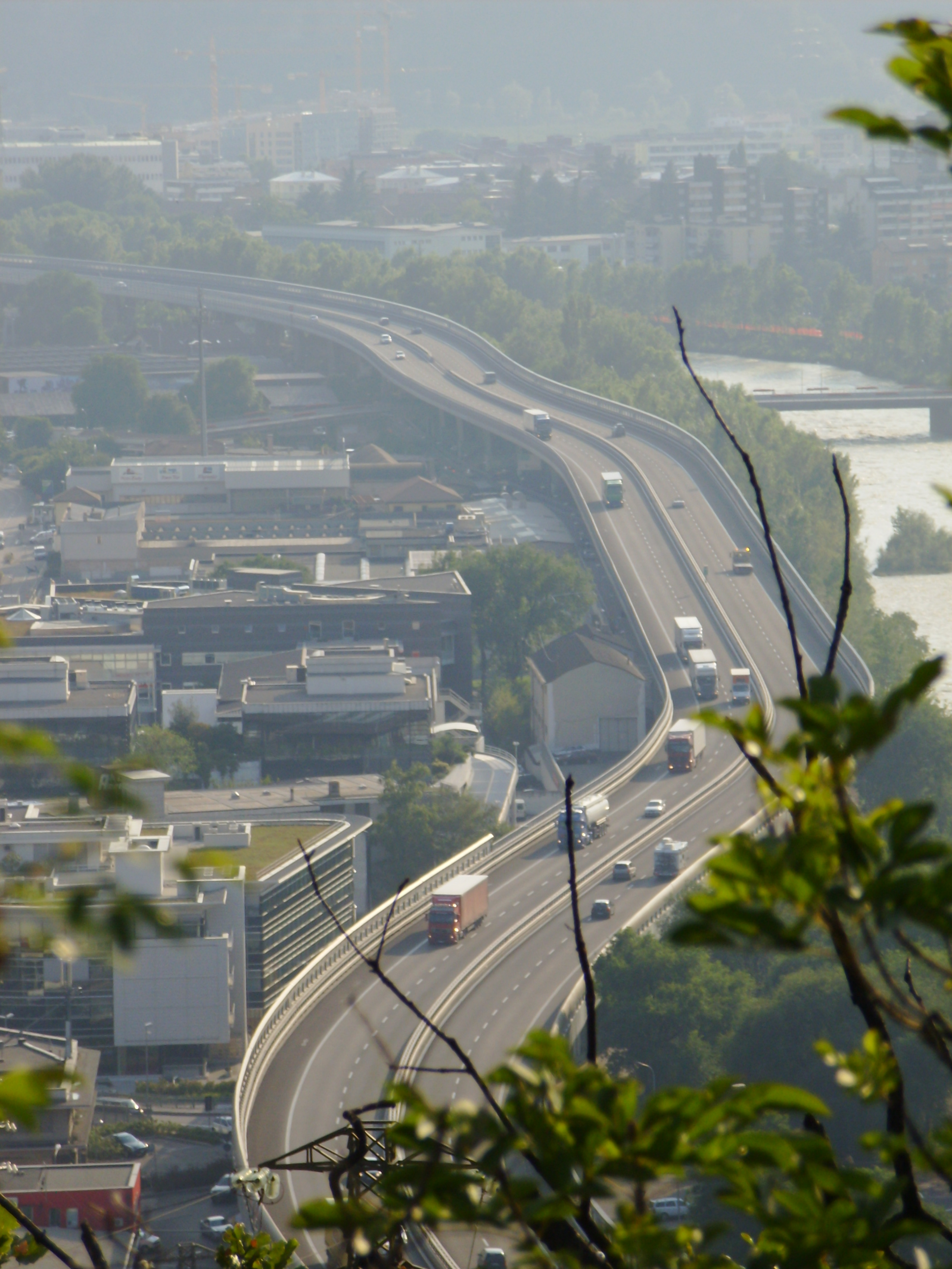 Motorway A22 in Bolzano